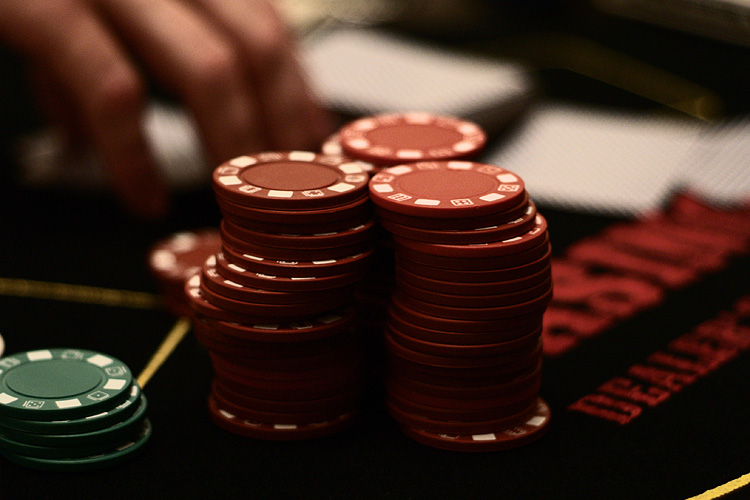 A pile of gambling chips.